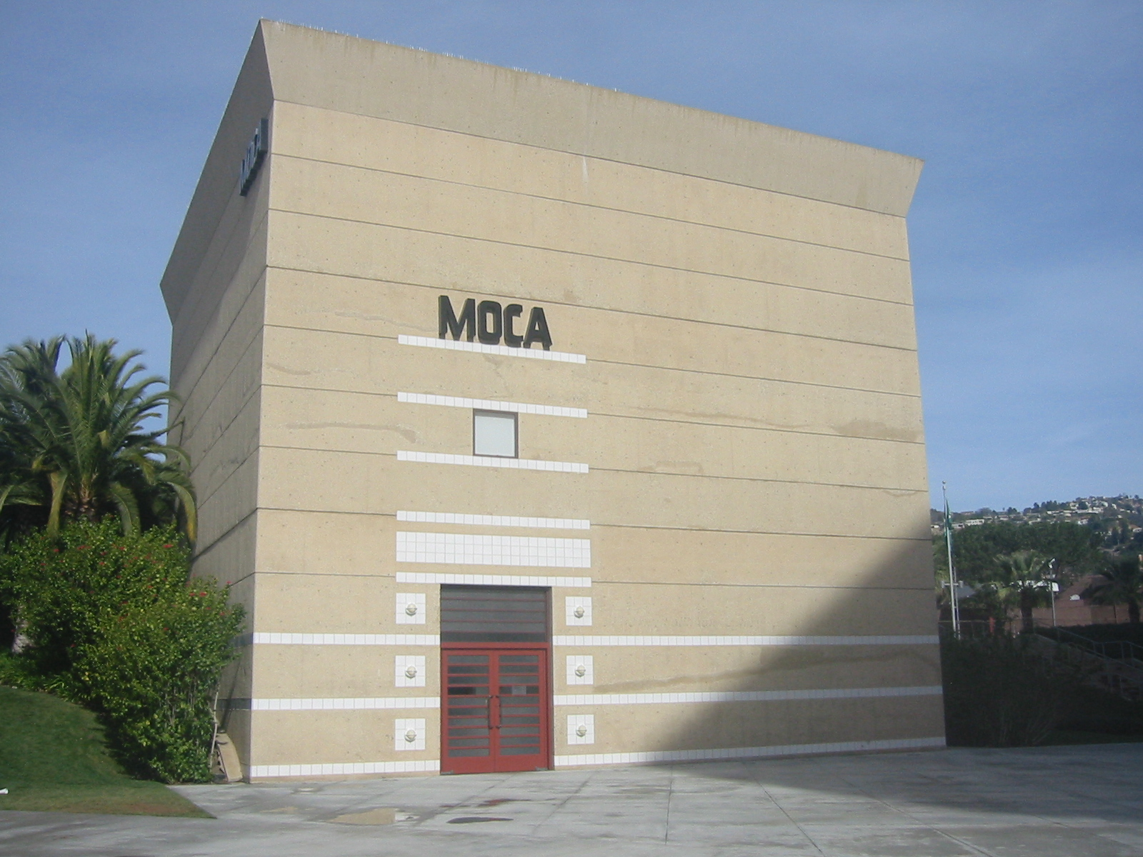 Museum of Contemporary Art (MOCA) at the Pacific Design Center in West Hollywood, California